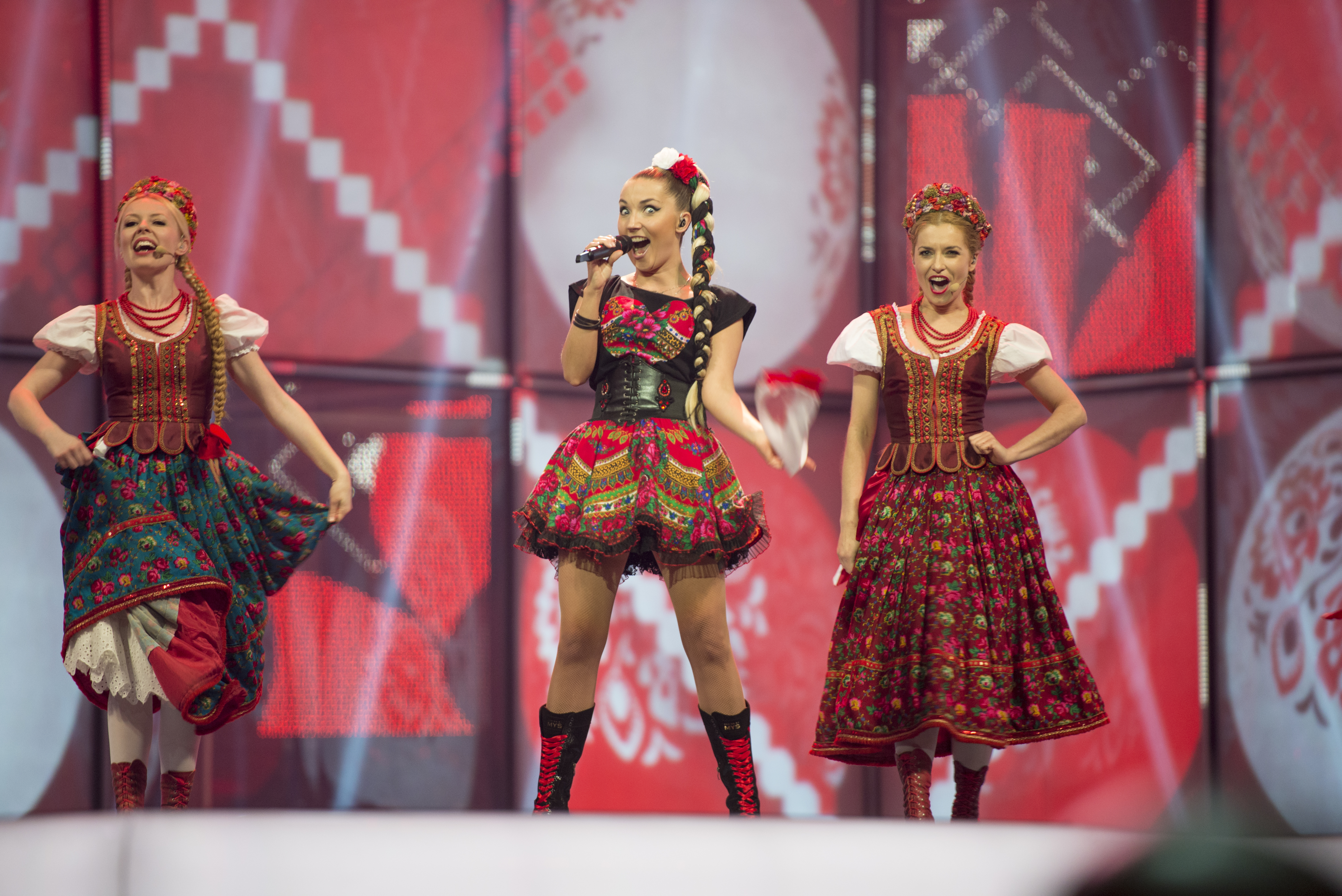 Donatan and Cleo representing Poland with the song "My Słowianie" during the first dress rehearsal of the second semi final of the Eurovision Song Contest 2014 Copenhagen. (Help translate this text)